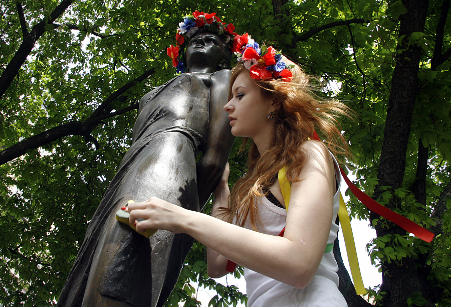 7 May 2010 FEMEN activists washed off Zoya Kosmodemyanskaya Monument to pay tribute to the women participated in the World War II